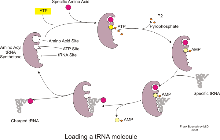 Loading and Charging a tRNA molecule with an Amino Acid using aminoacyl-tRNA synthetase